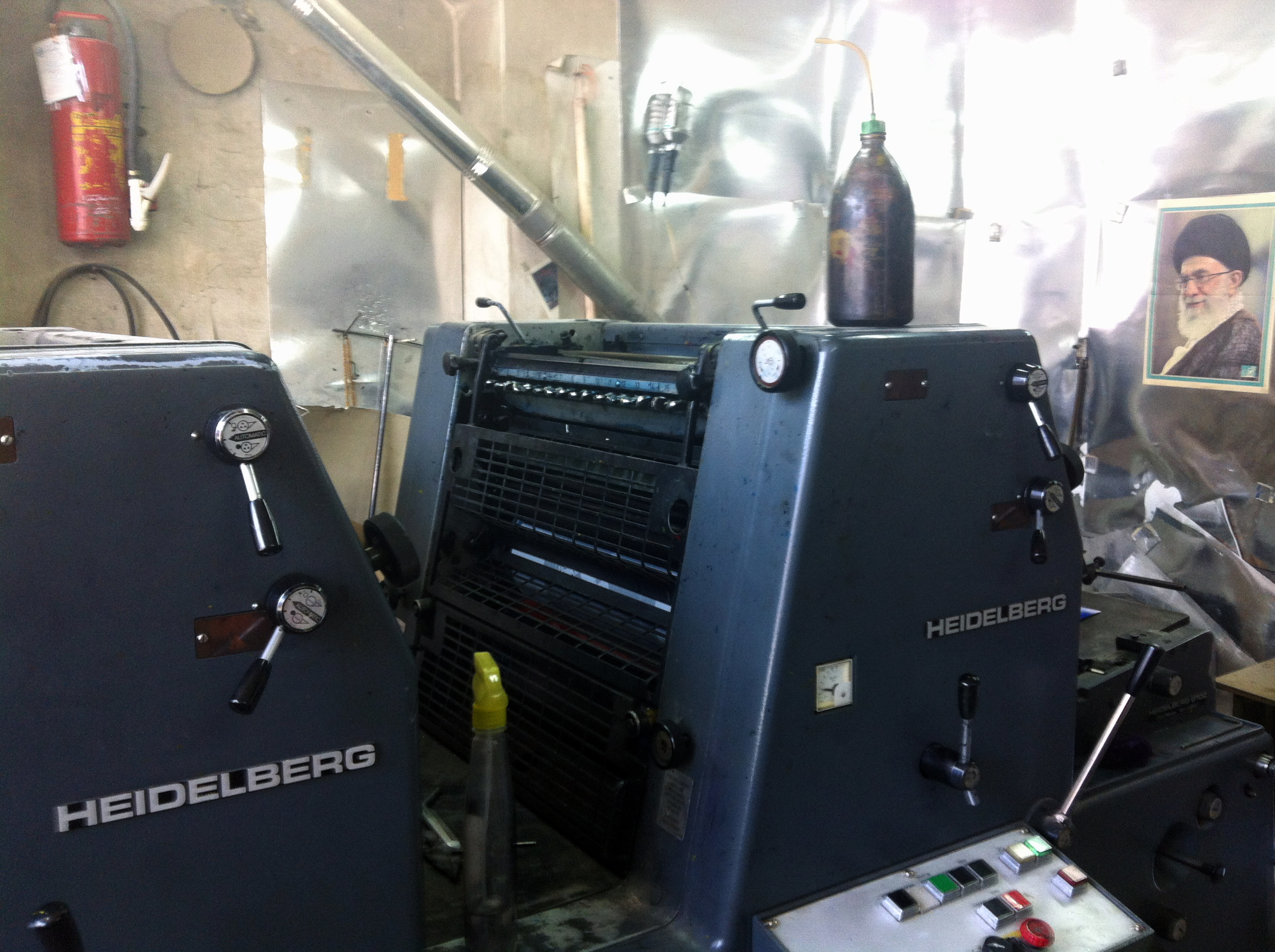 A print shop in Tehran that is filled with vintage Heidelberg equipment.